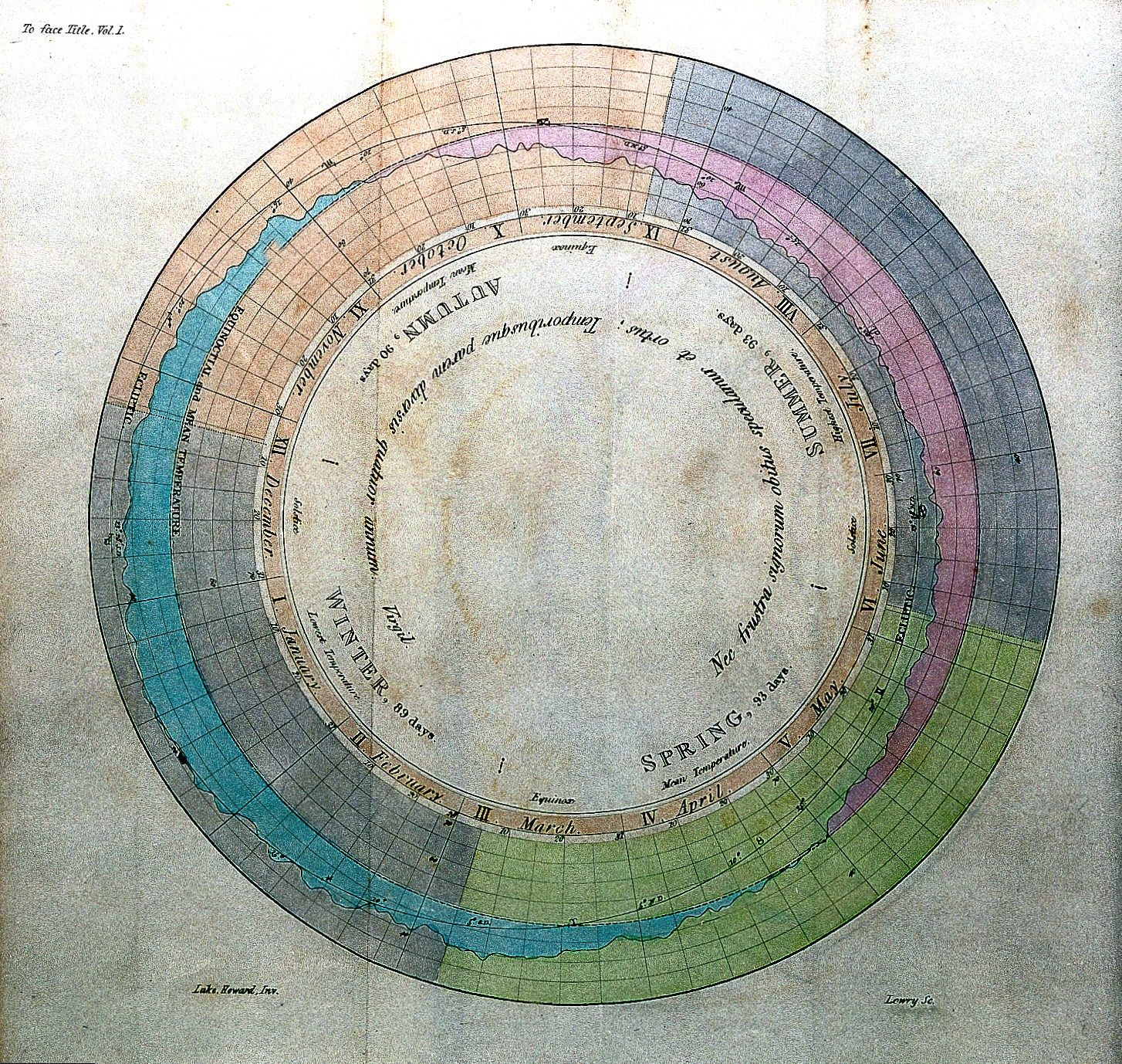 Plate showing the yearly circle of temperature. Rare Books Keywords: Meteorology